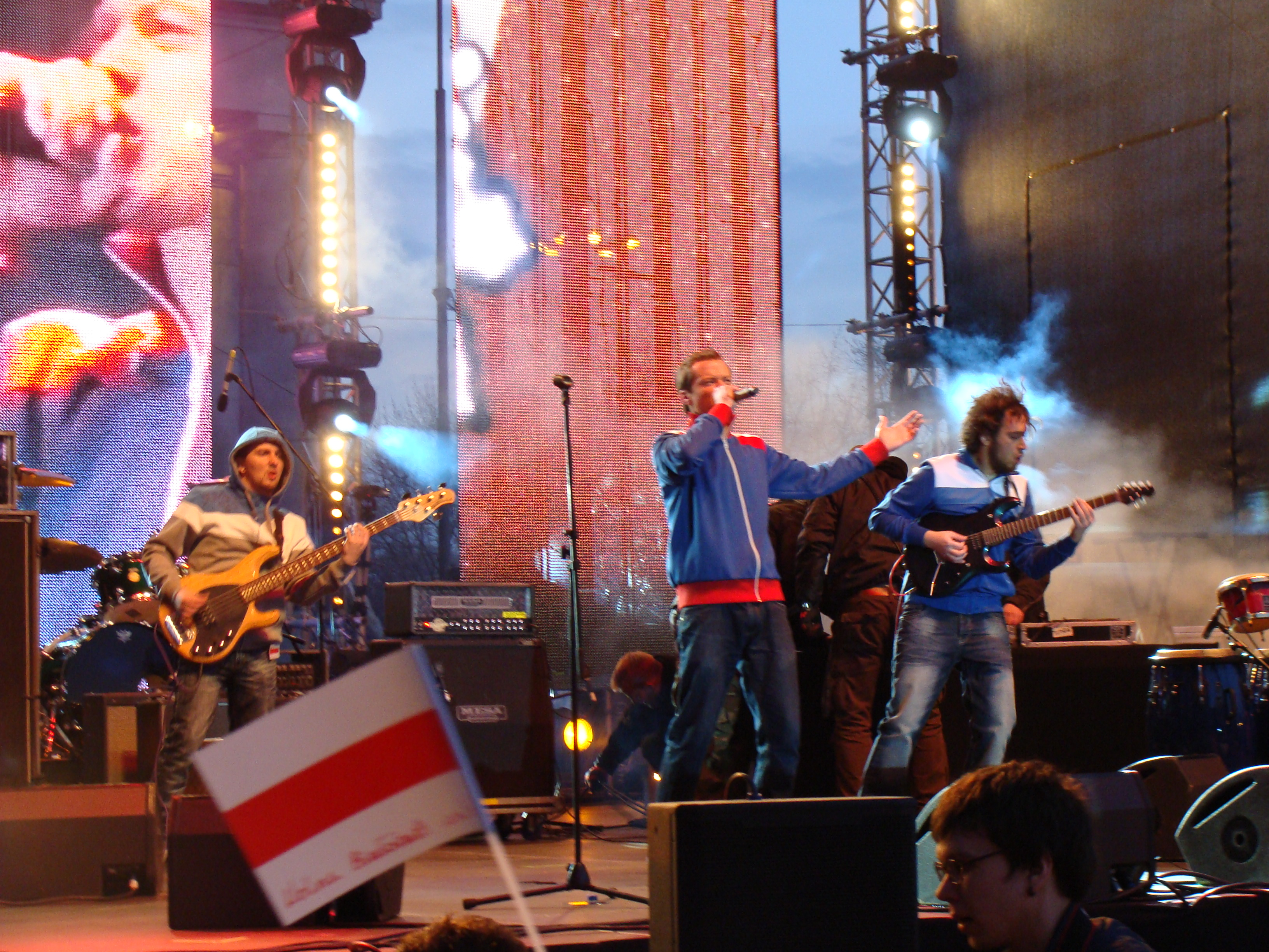 "Solidarity with Belarus" concert, 27 march 2011, Warsaw.